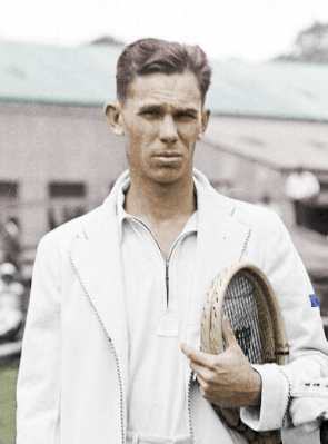 American tennis player Ellsworth Vines holding tennis racquets on a court, New South Wales, ca. 1930